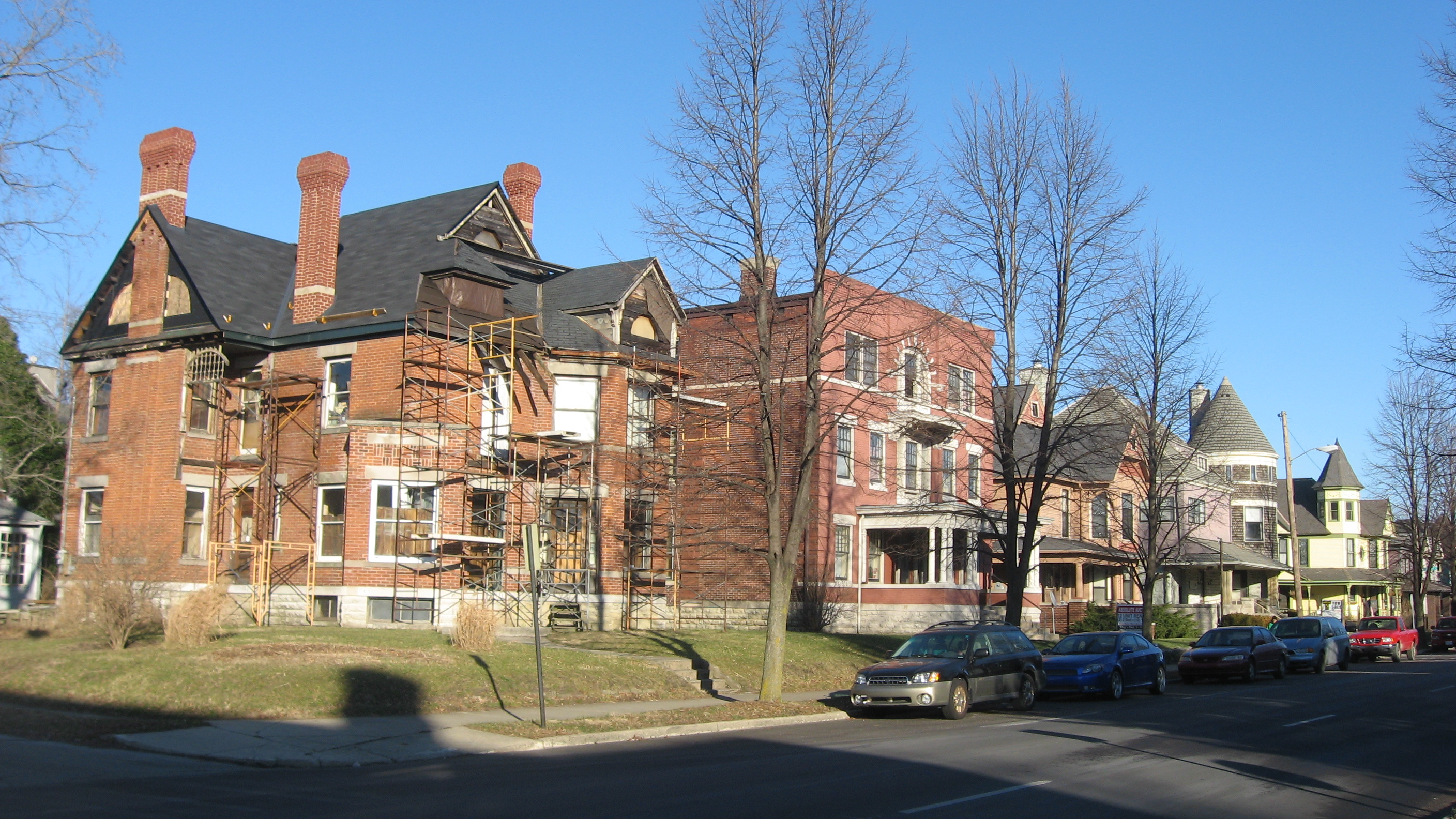 Buildings on the northern side of the 700 block of W. Main Street (State Road 32) in Muncie, Indiana, United States. The house on the left edge of the picture was built in 1890, as were many other houses in the area. This block is part of the Emily Kimbrough Historic District, a historic district that is listed on the National Register of Historic Places.